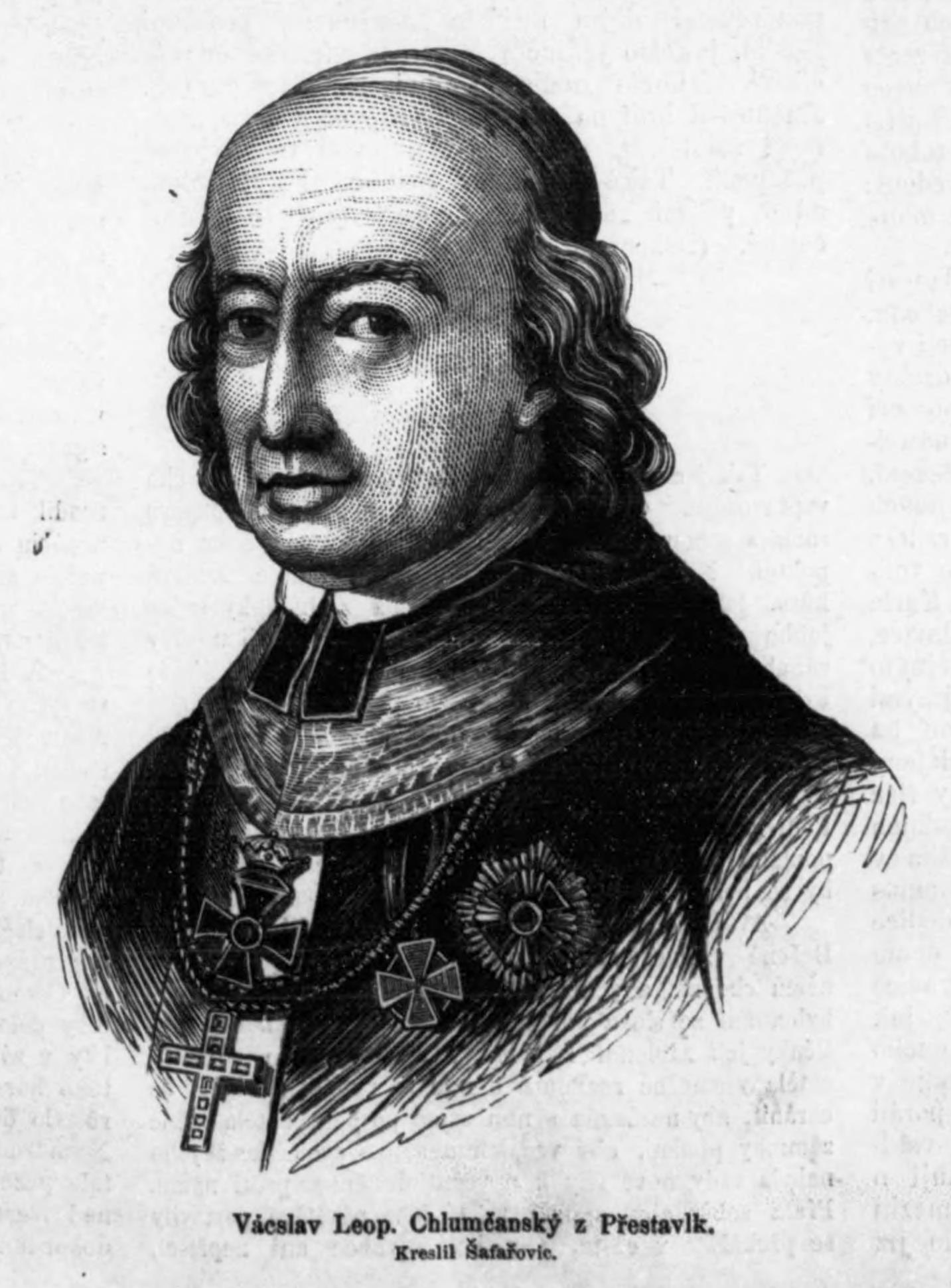 Portrait of Václav Leopold Chlumčanský z Přestavlk a Chlumčan (1749 - 1830), bishop of Litoměřice 1802 - 1815 and archbishop of Prague from 1815.